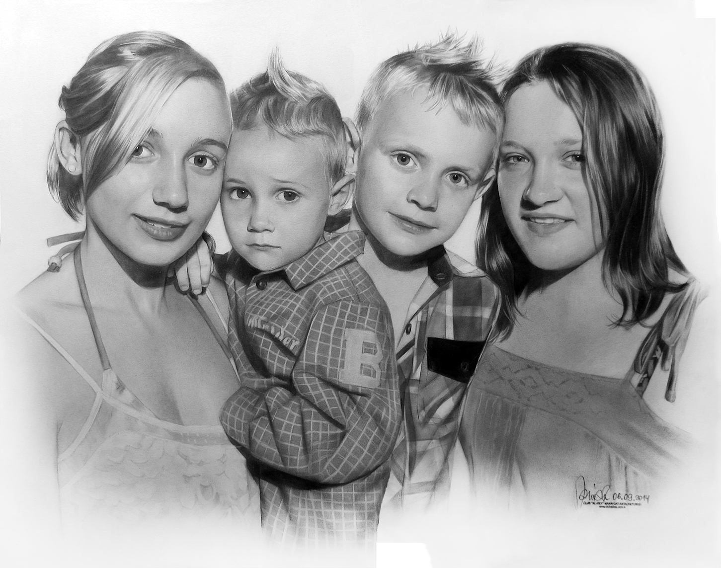 "Two brothers and two sisters" Paper, oil paint. 50x70 cm. Technique "dry brush"